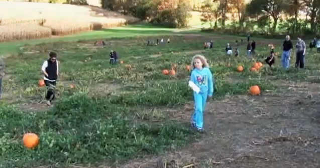 Families picking pumpkins for Halloween in Maryland, United States.